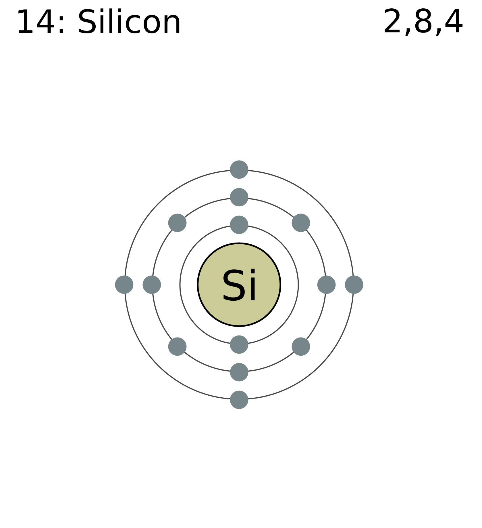 Electron shell diagram for Silicon, the 14th element in the periodic table of elements.